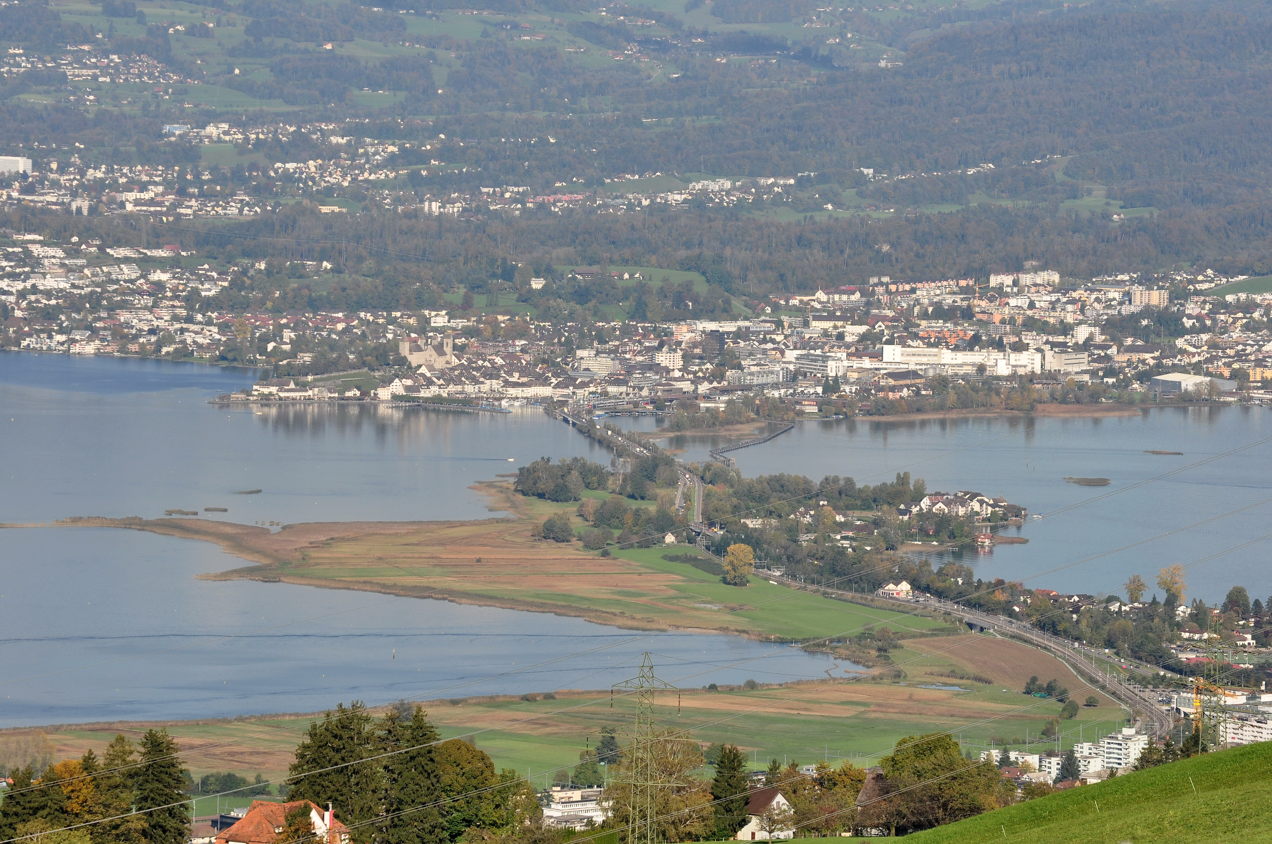 View from nearby Feusisberg towards Etzel mountain in Switzerland, focus on Rapperswil-Jona – Kempraten and Rapperswil to the left, Jona to the right : Freienbach, Frauenwinkel protected area, Hurden, Seedamm and Holzbrücke in the foreground, Zürichsee and Lützelau island to the left, Obersee to the right, Rüti in the background.